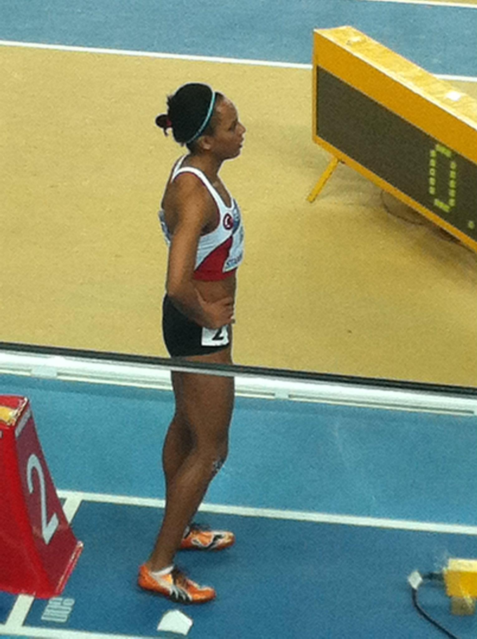 Meliz Redif